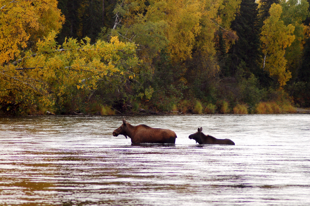 Crossing the Deshka River.